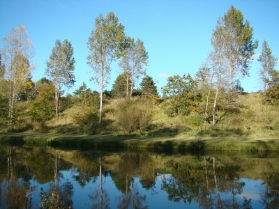 Part of nature in the Amsterdamse Waterleidingduinen